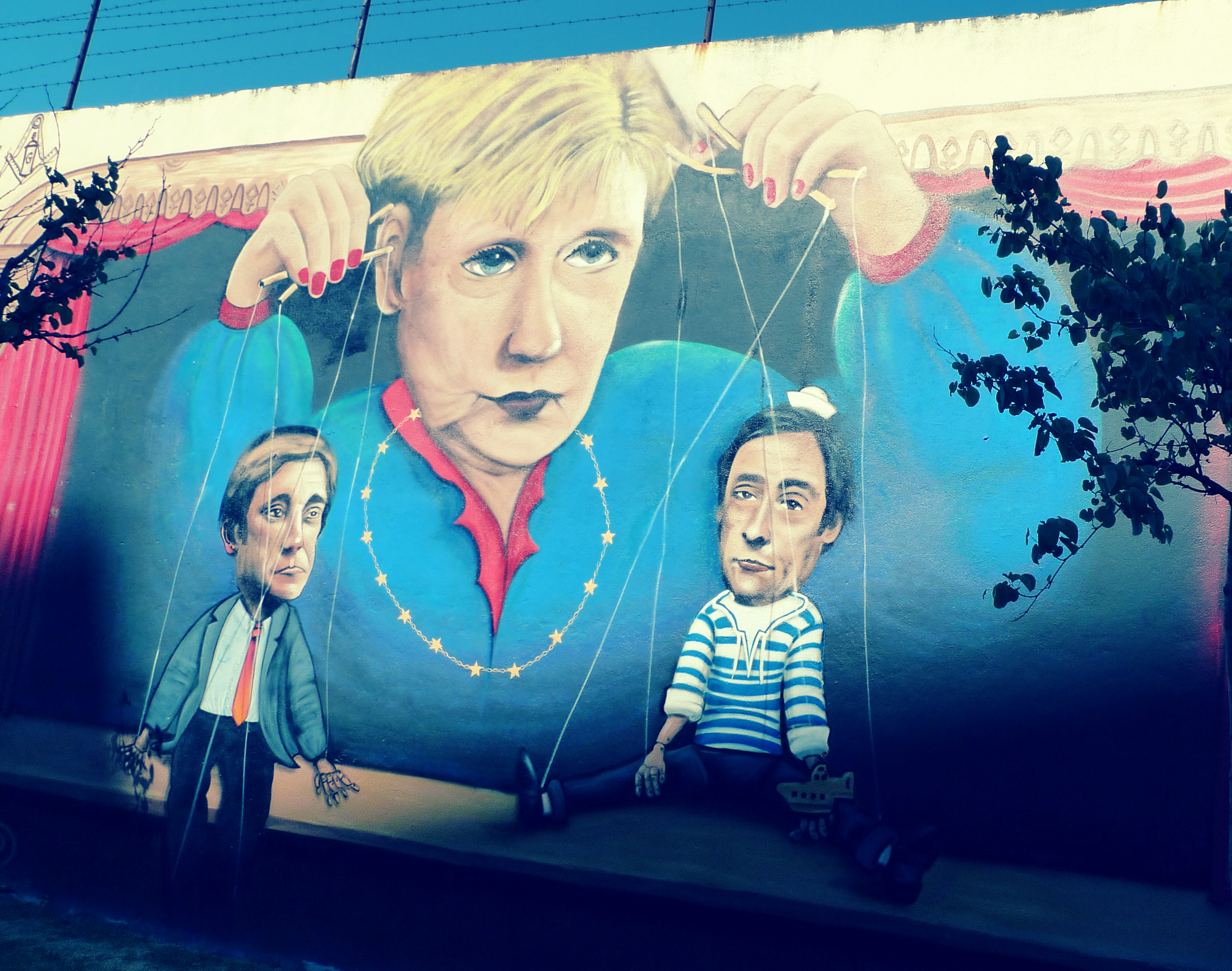 Art with a meaning